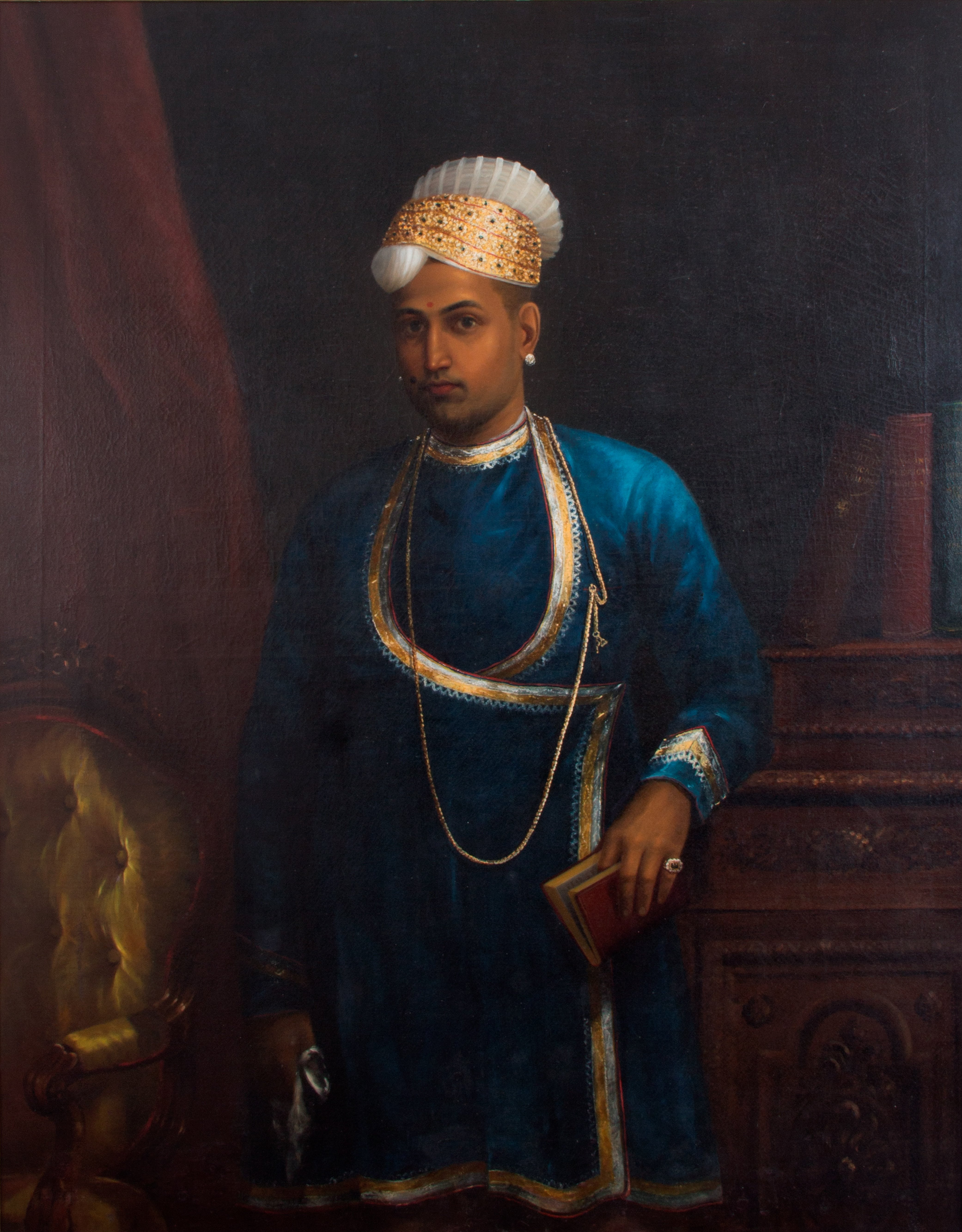 Kerala Varma Valiya Koil Thampuran (1845–1914) from Changanassery Lakshmipuram Palace